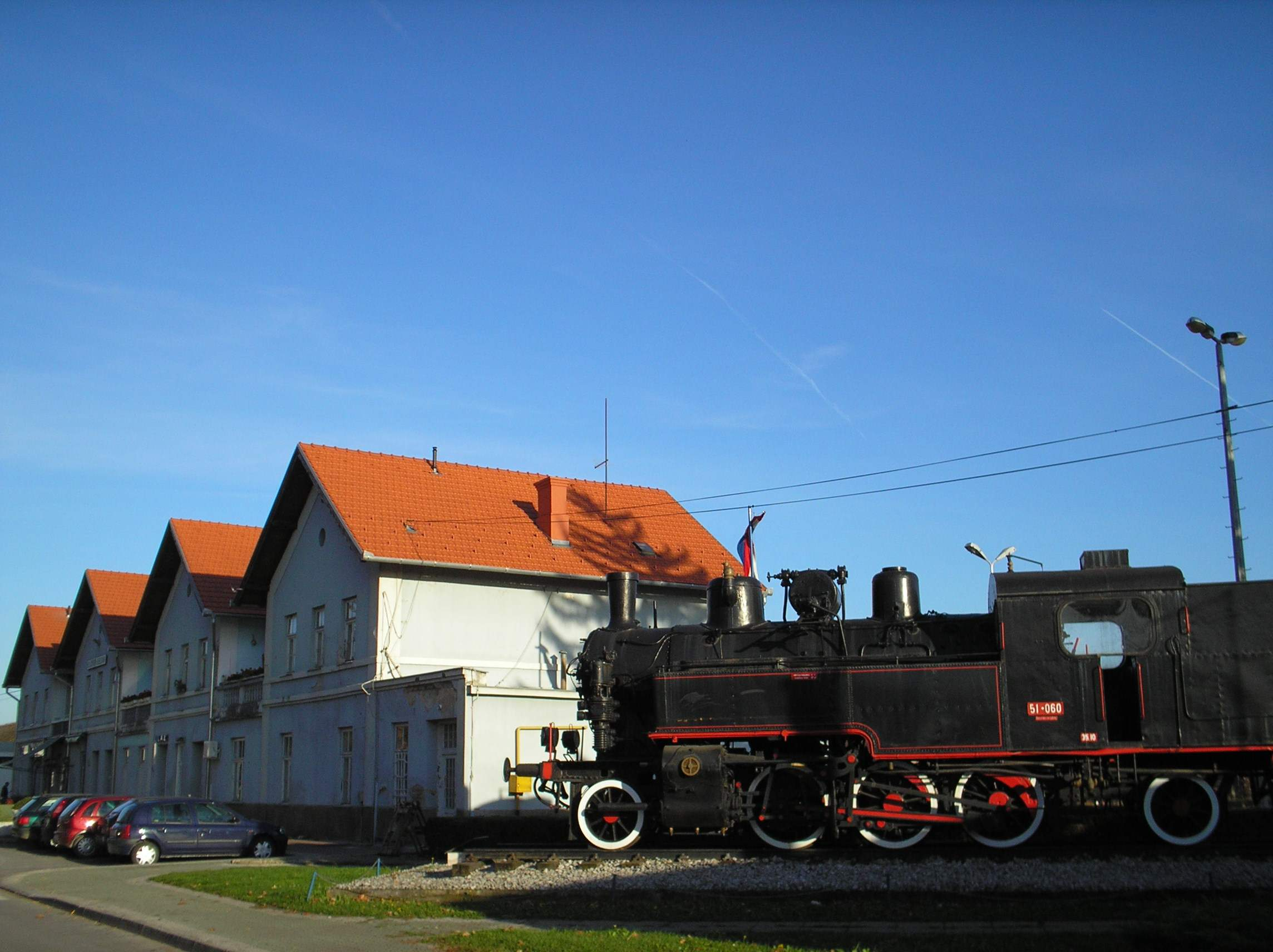 Train station in Bjelovar, Croatia